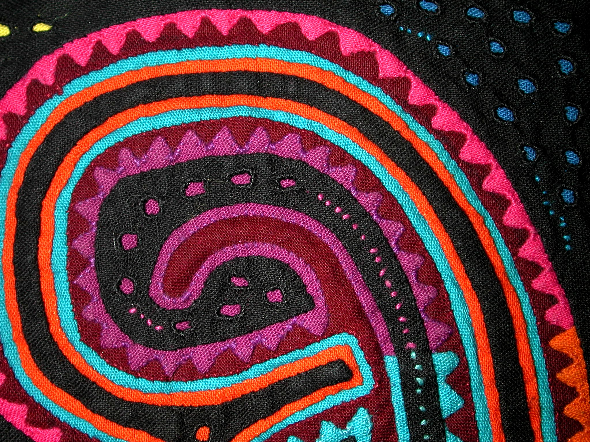 A molas made in the San Blas Islands of Panama by master mola maker Venancio Restrepo. The design is traditional. This closeup shows the fine stitching typical of the best molas, as well as the layering of the reverse-applique technique. Picture by S/V Moonrise.